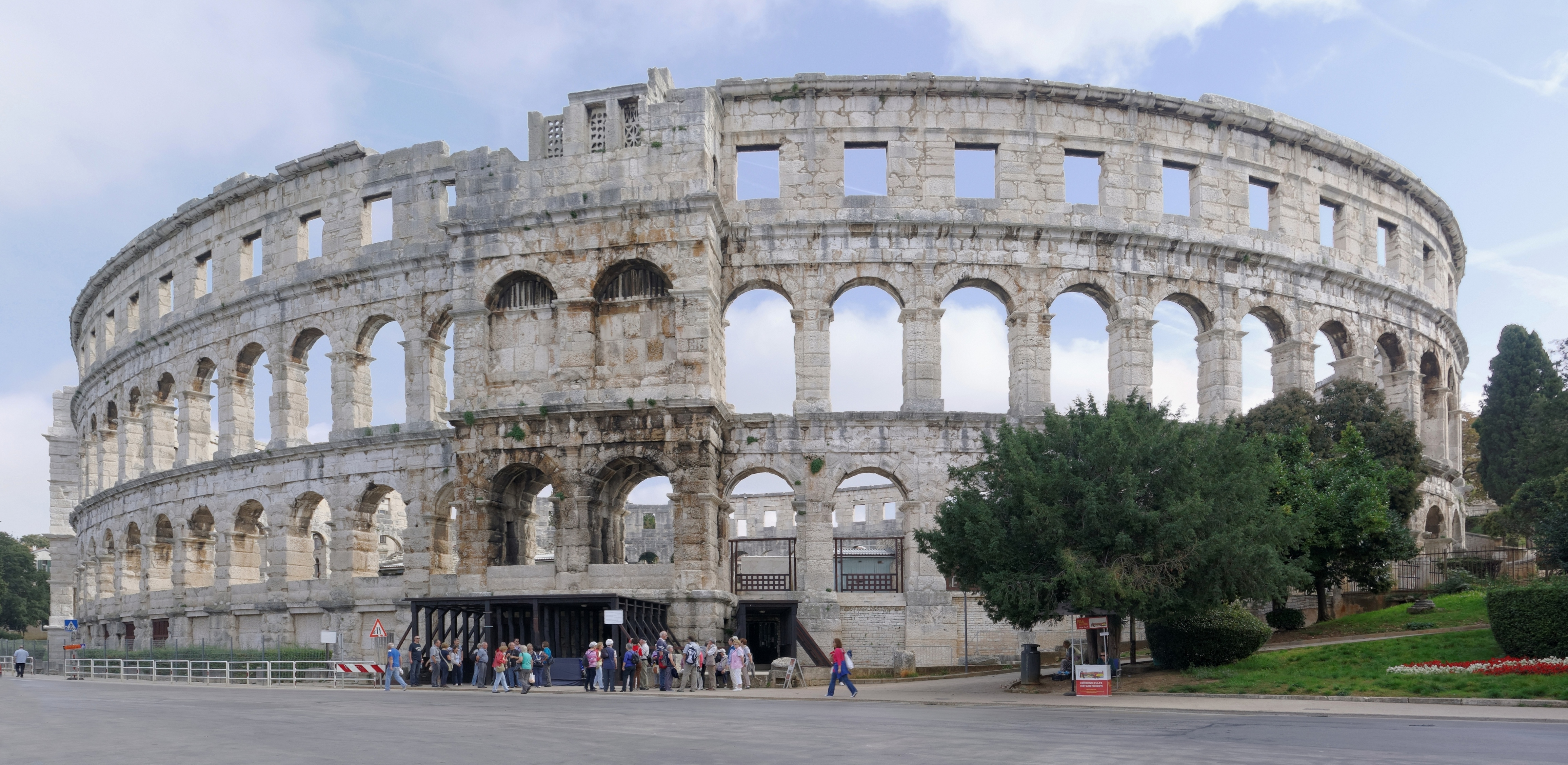 Croatia, Pula, Amphitheatre